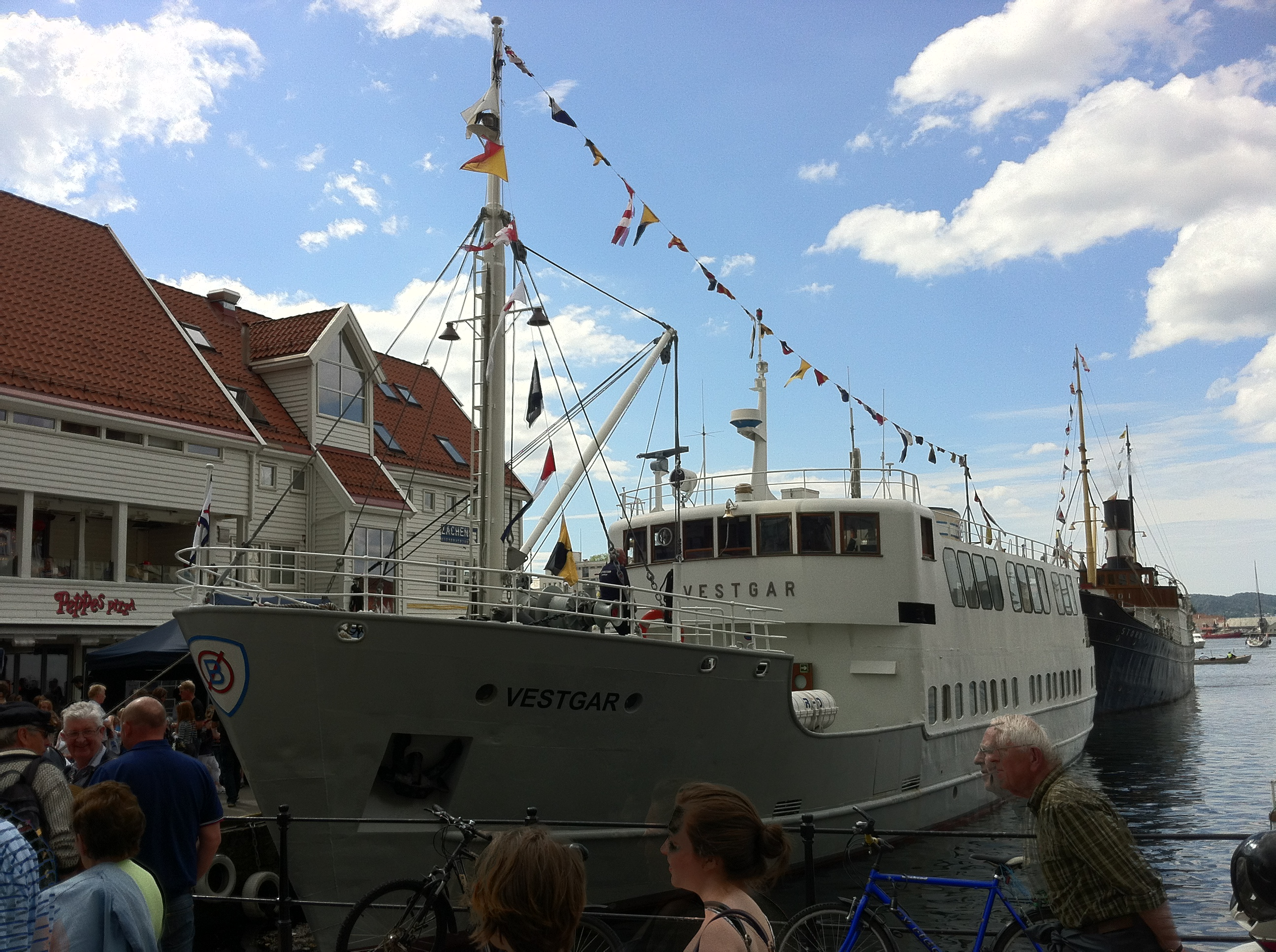 Vestgar in Bergen harbour